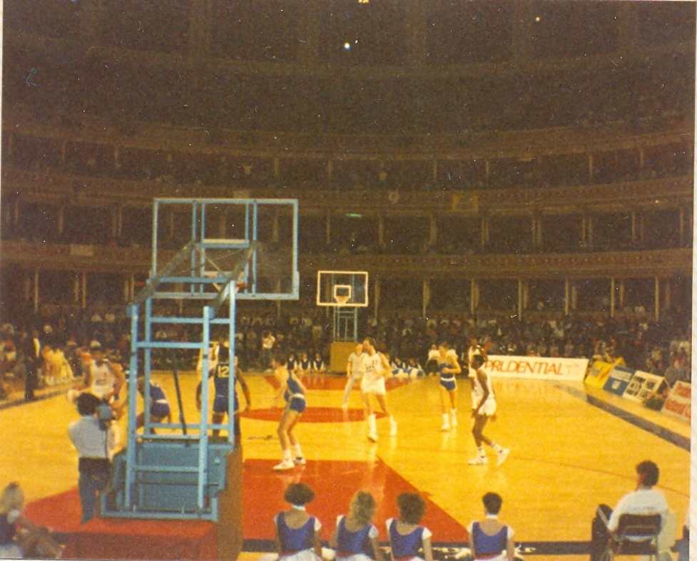 Portsmouth FC Basketball Club v Kingston Kings, National Cup final, Royal Albert Hall, London, December 15th 1986. Portsmouth's Alan Cunningham (white vest, dribbling ball) attacks the Kingston basket.